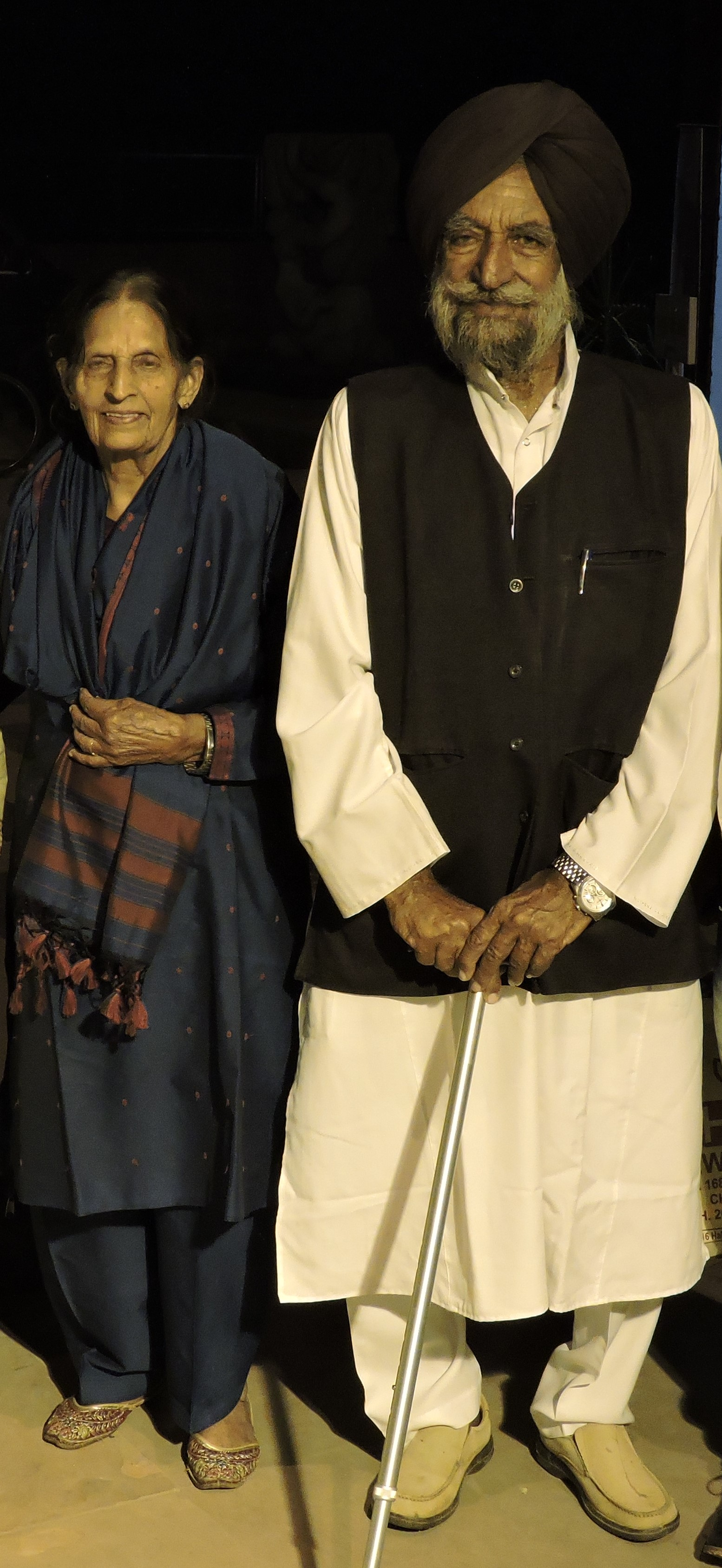 Amarjit Gurdaspuri , revolutionary singer artist of Punjab, India, with his wife .